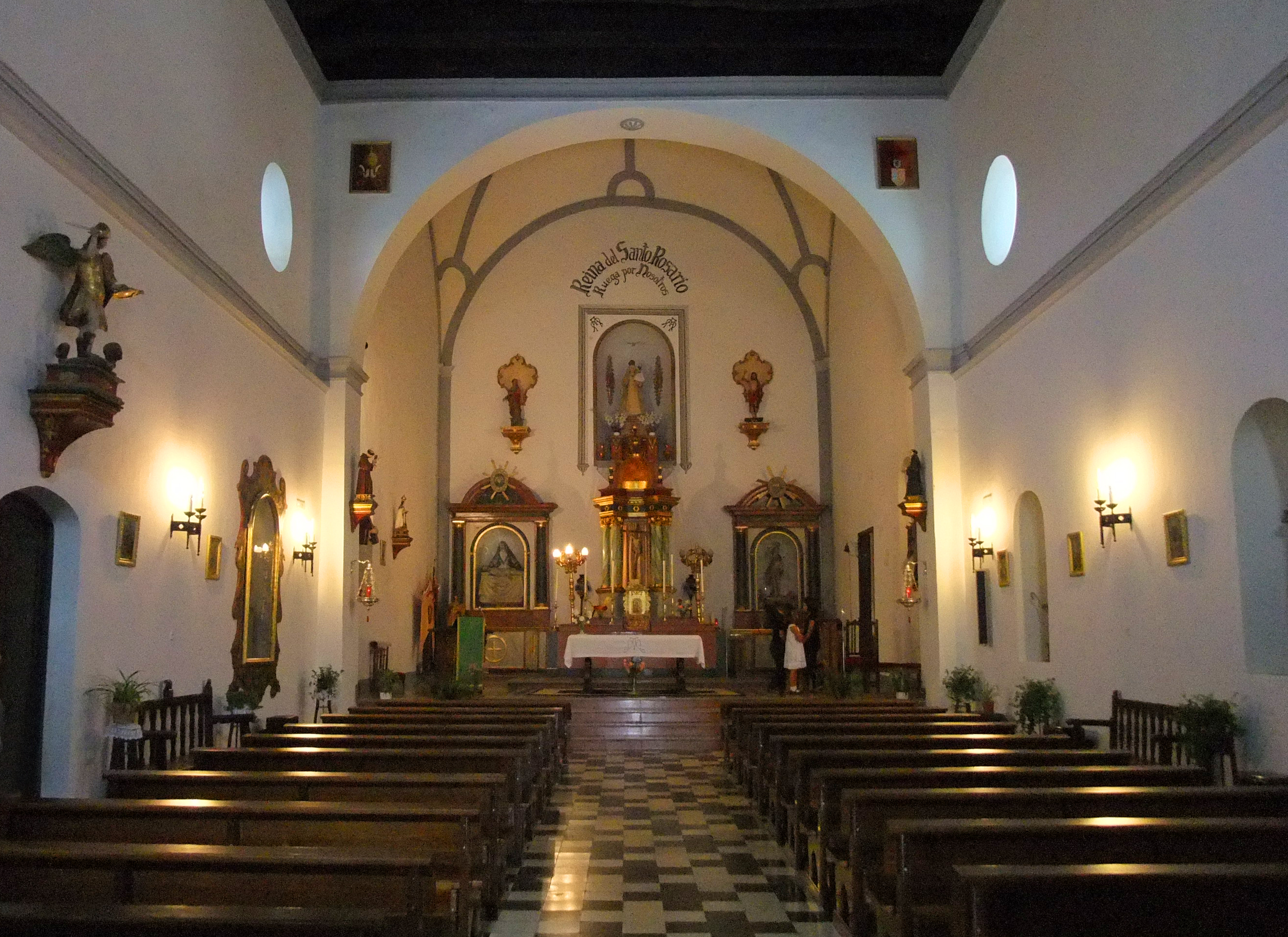 Church in Bubión, Province Granada in Spain